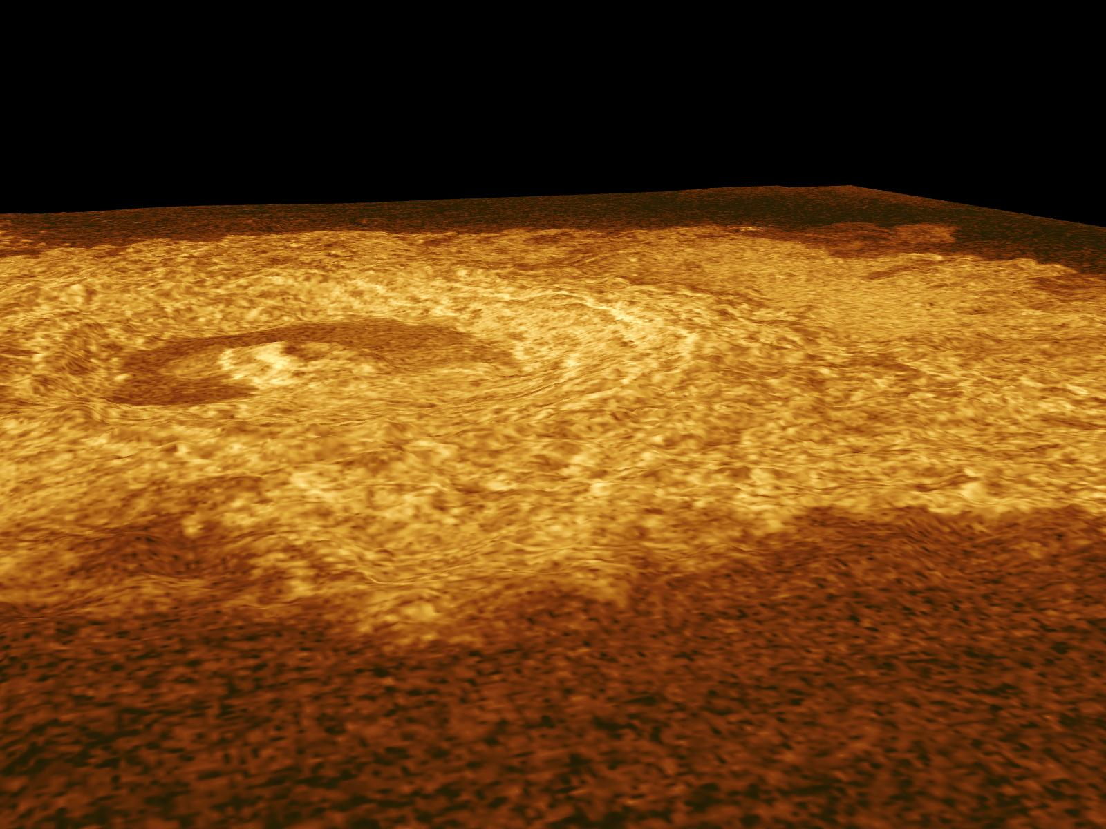 This Magellan full resolution radar mosaic centered at 14 degrees north latitude, 72 degrees east longitude, shows an oblique view of the impact crater Riley, named for Margaretta Riley, a 19th Century botanist. This view was prepared from two left-looking Magellan radar images acquired with different incidence angles. Because the relief displacements of the two images are different, depths from the crater rim to the crater floor and heights of the crater rim and flanks above the surrounding plains can be measured. The crater is 25 kilometers (15.5 miles) in diameter. The floor of the crater is 580 meters (1,914 feet) below the plains surrounding the crater. The crater's rim rises 620 meters (2,046 feet) above the plains and 1,200 meters (3,960 feet) above the crater floor. The crater's central peak is 536 meters (1,769 feet) high. The crater's diameter is 40 times the depth resulting in a relatively shallow appearance. The topography is exaggerated by 22 times to emphasize the crater's features. This oblique view was produced from two left-looking radar stereo image mosaics utilizing photogrammetric software developed by the Solar System Visualization Project and the Digital Image Animation Laboratory at JPL's Multimission Image Processing Laboratory.